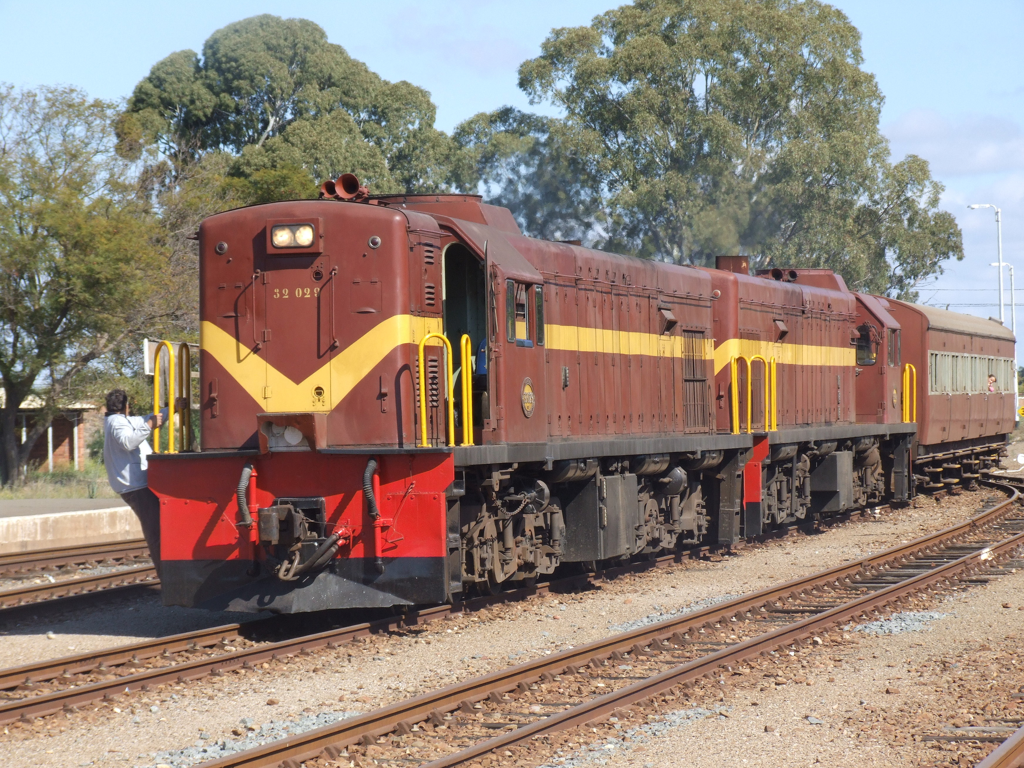 Class 32-029 and 32-042 Pulling into Oudtshoorn on the 22nd September 2007 working a special train from George.